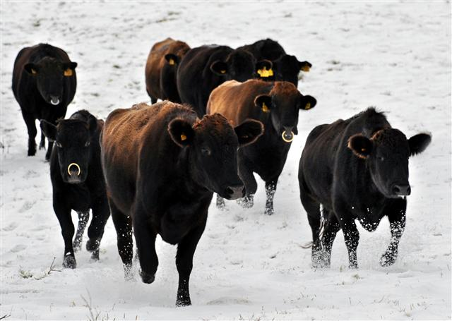 Jeju black cattle on the snow graze